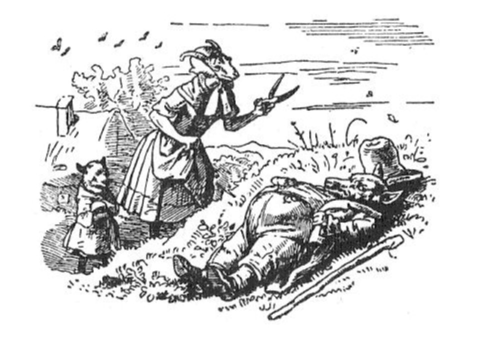 Brothers Grimm's Fairy Tales, the wolf and the seven kids.